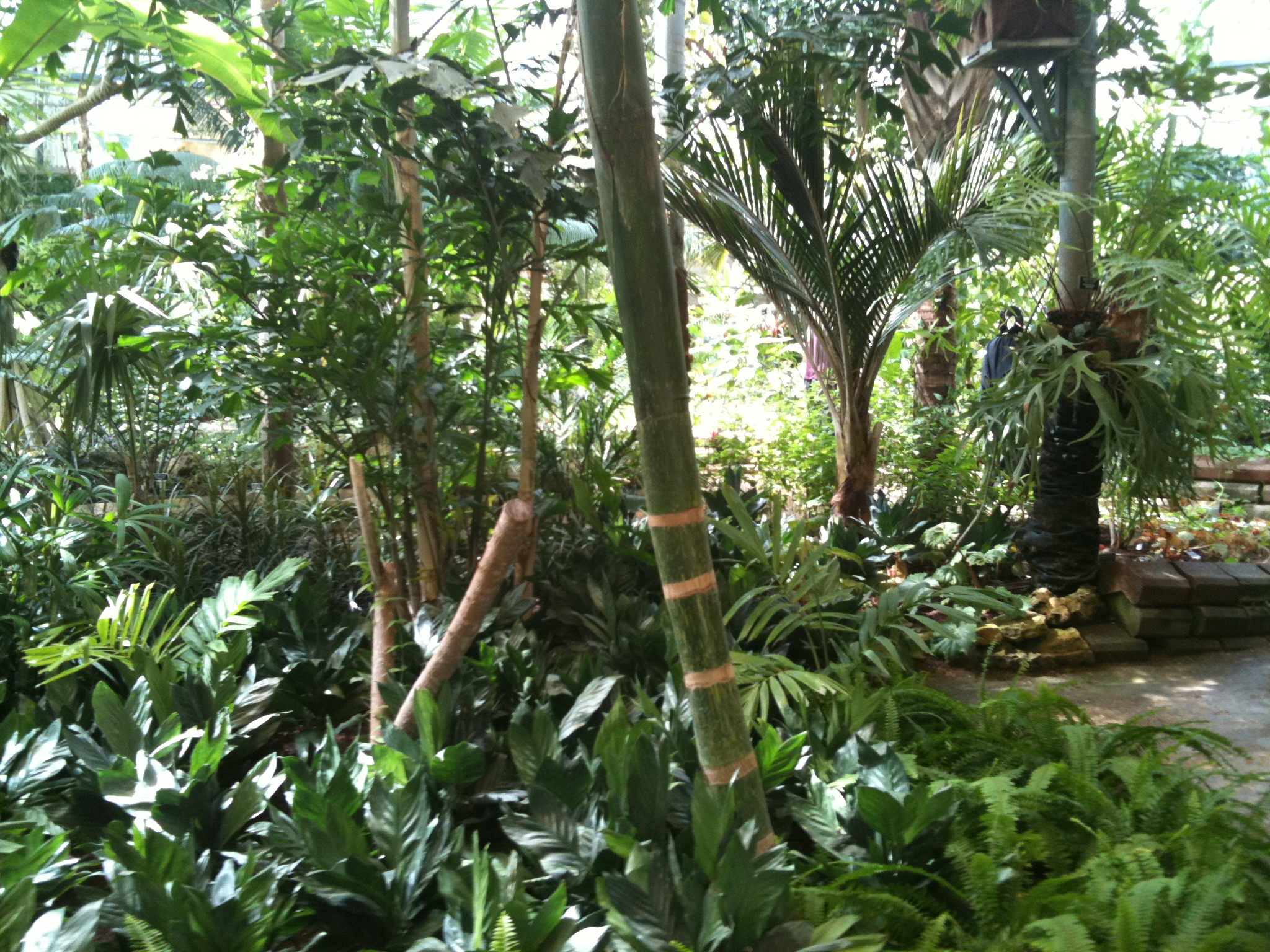 In the Tropical Greenhouse at the Jerusalem Botanical Gardens, G. Ram, Jerusalem, Israel.